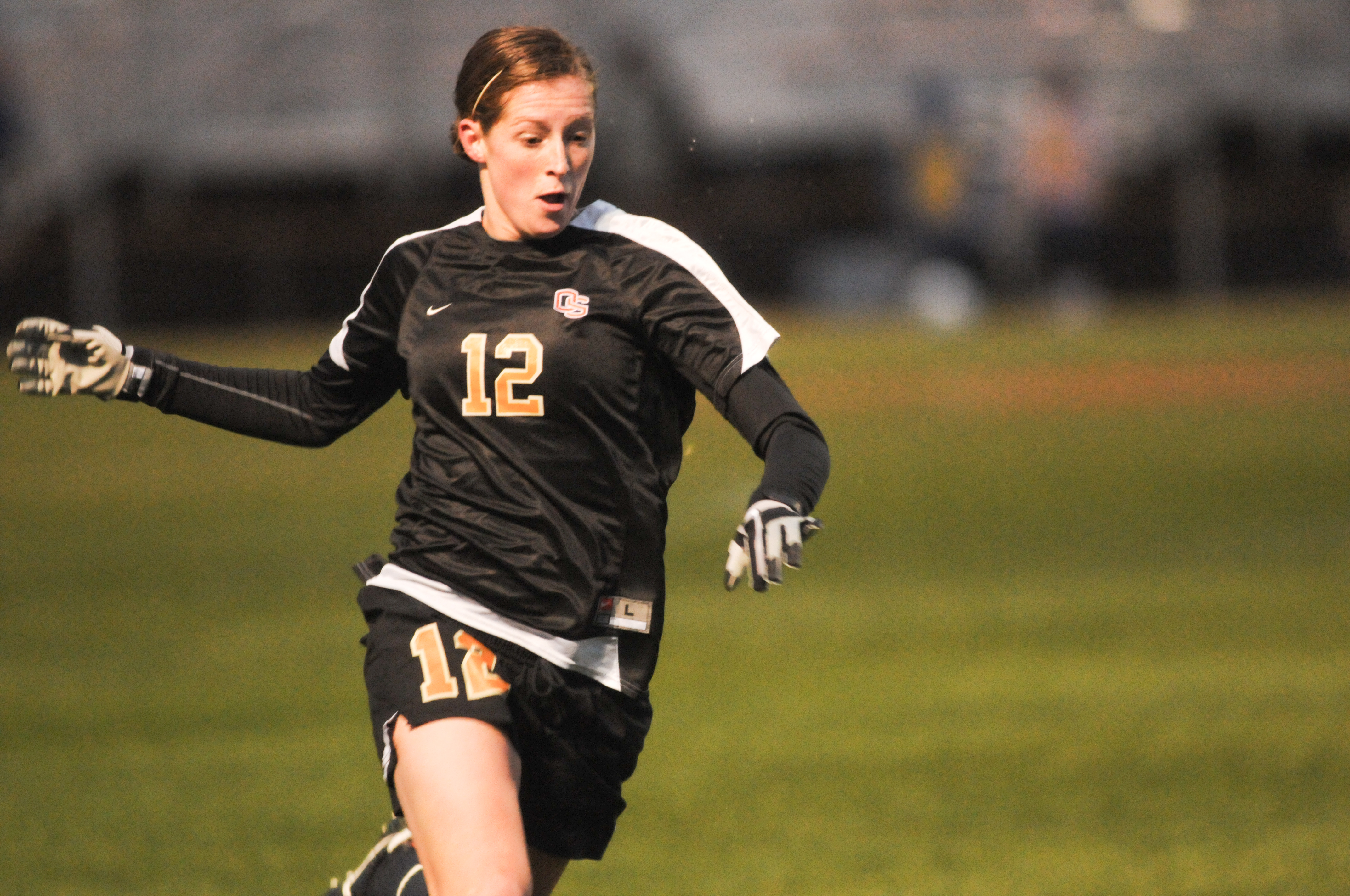 Chelsea Buckland chases after the ball in Oregon State's game against Memphis in Stillwater, OK.